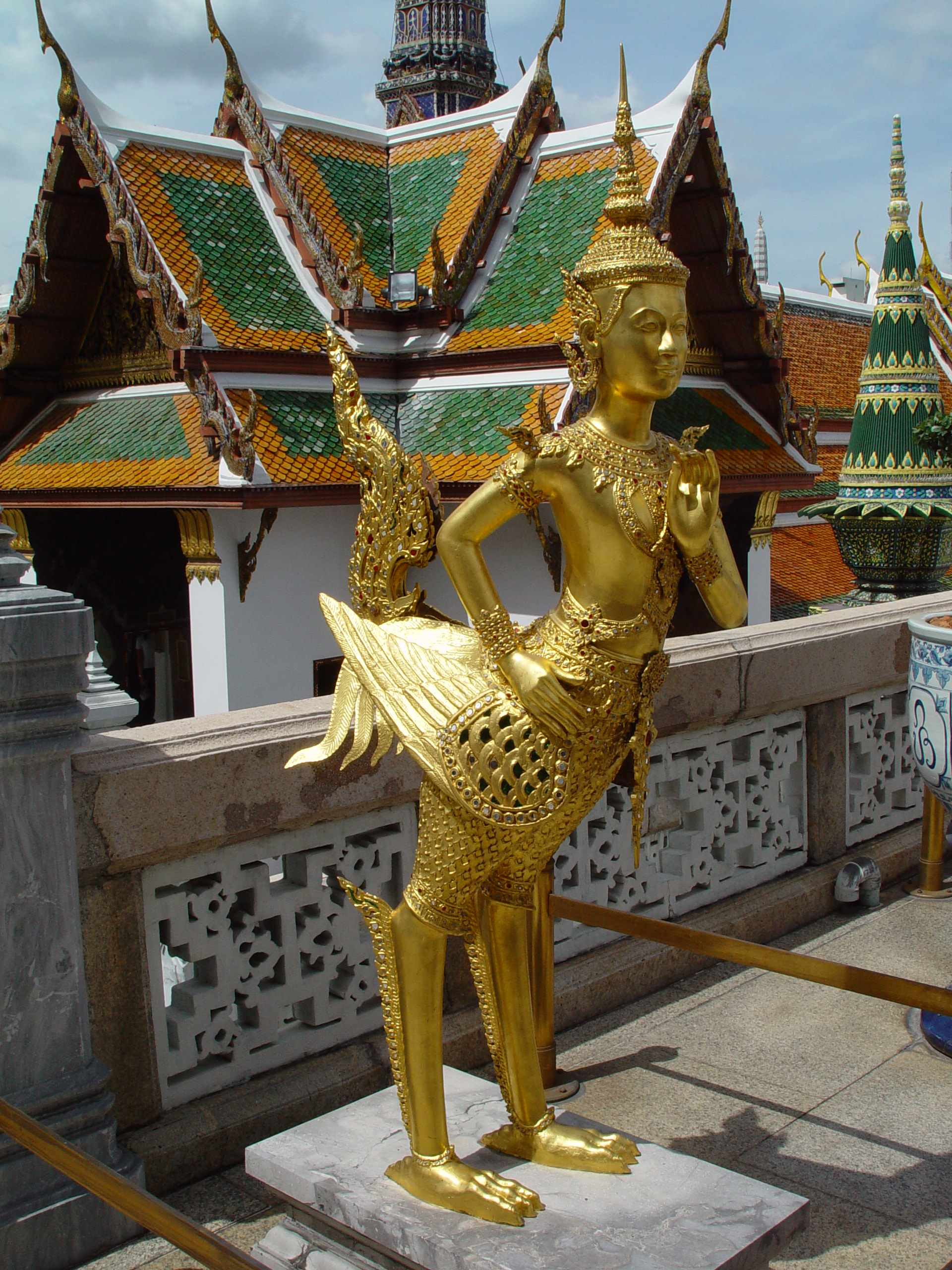 Kinnorn, male counterpart of a Kinaree (Kinaree or Ginnaree) at Wat Phra Kaeo in Bangkok.